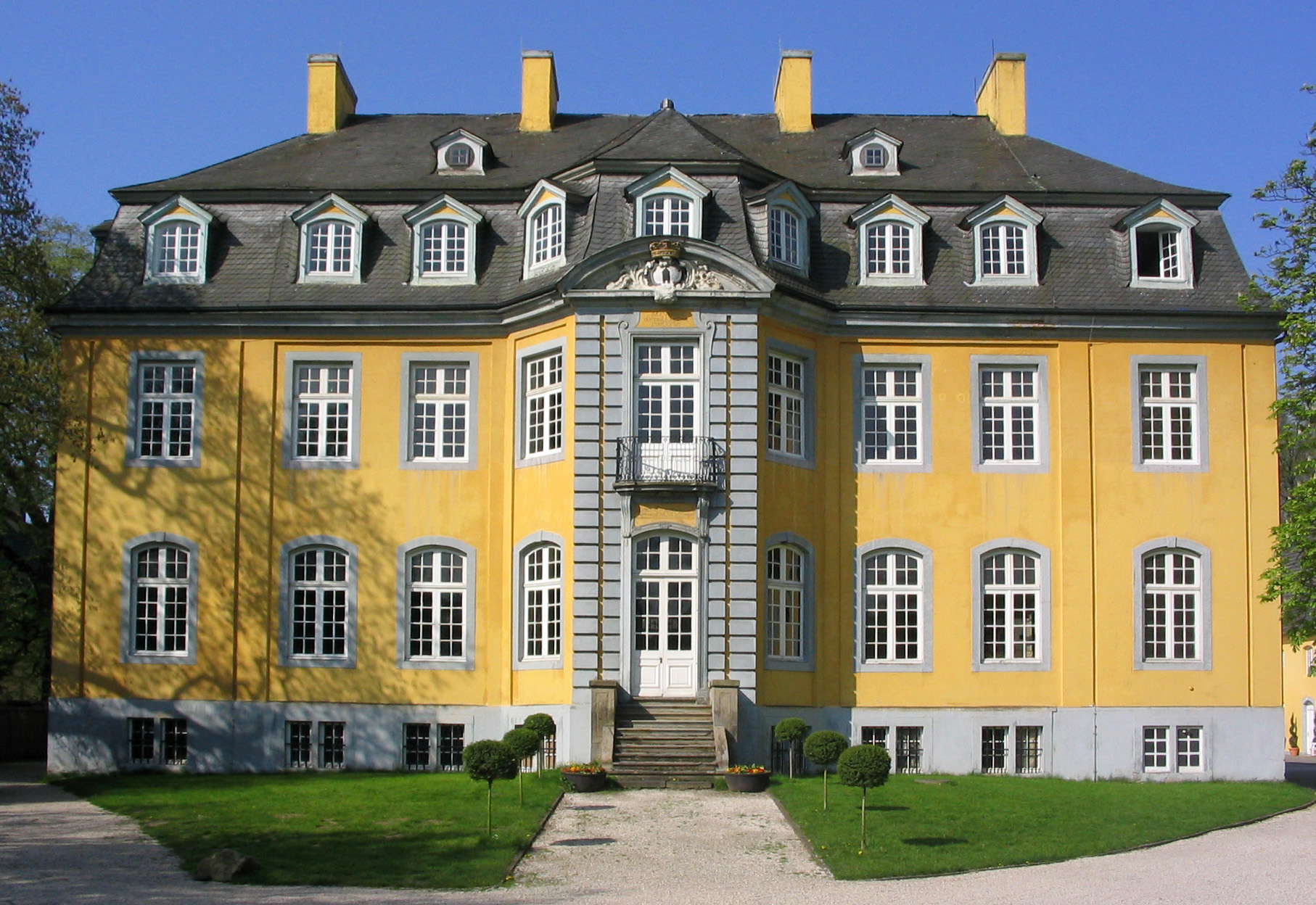 Schloss Beck at Bottrop Kirchellen, Germany; View form Garden